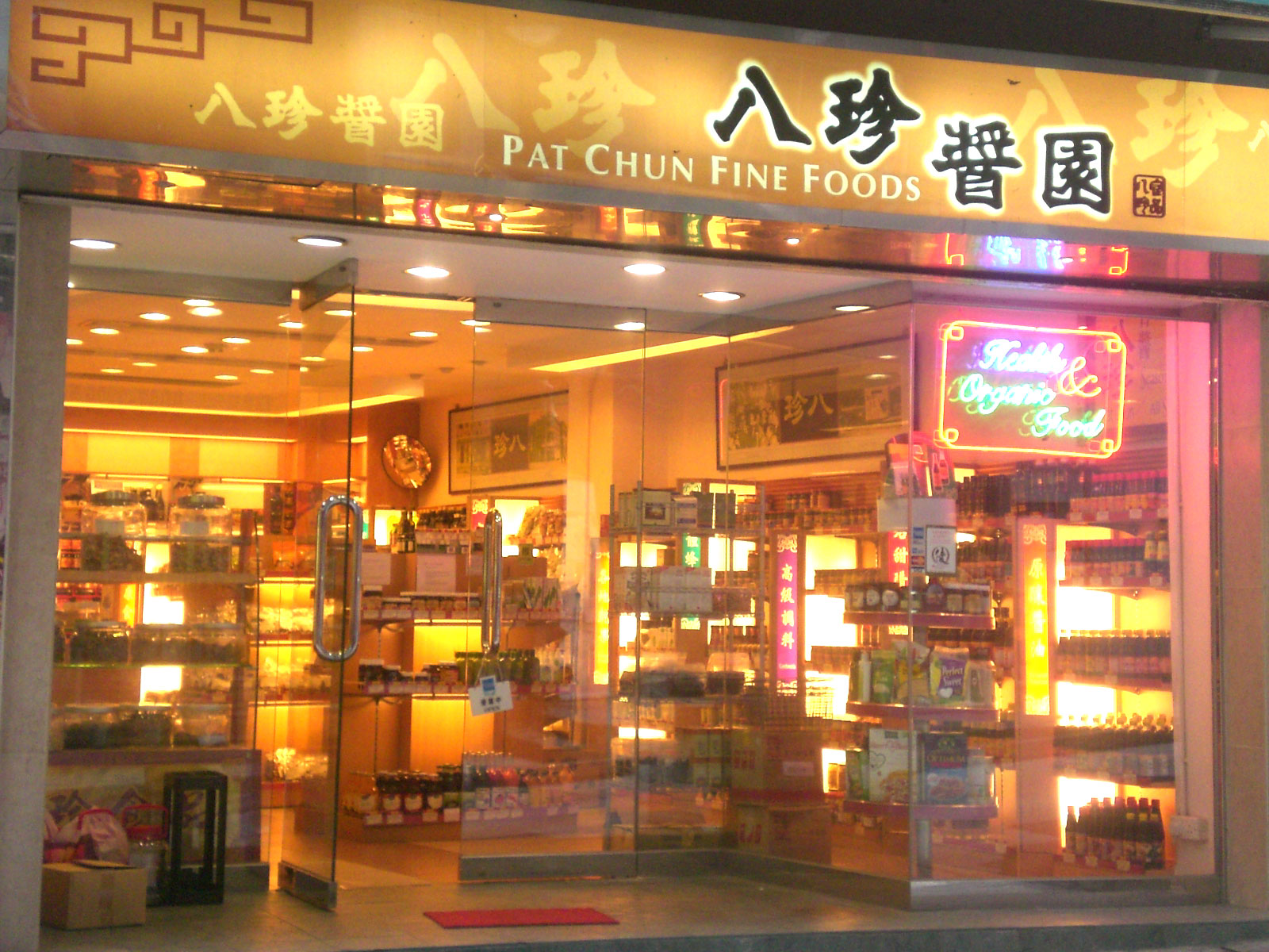 八珍分店 - 中環威靈頓街75號